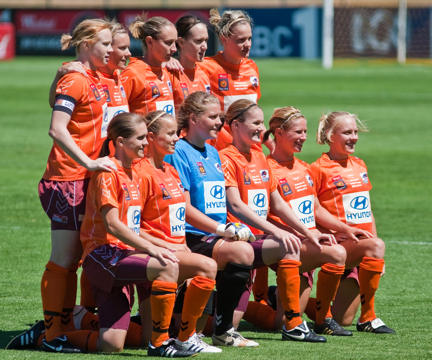 The Brisbane Roar W-League starting team for the 2009 Grand Final.